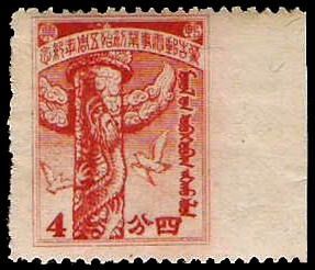 First original postage stamp of Mengjiang, Inner Mongolia, China, 4 fen, year 32 in the Chinese Republic Calendar (1943). 5th anniversary of the Mengjiang post and telegraph service. Dragon-carved pillar and doves.